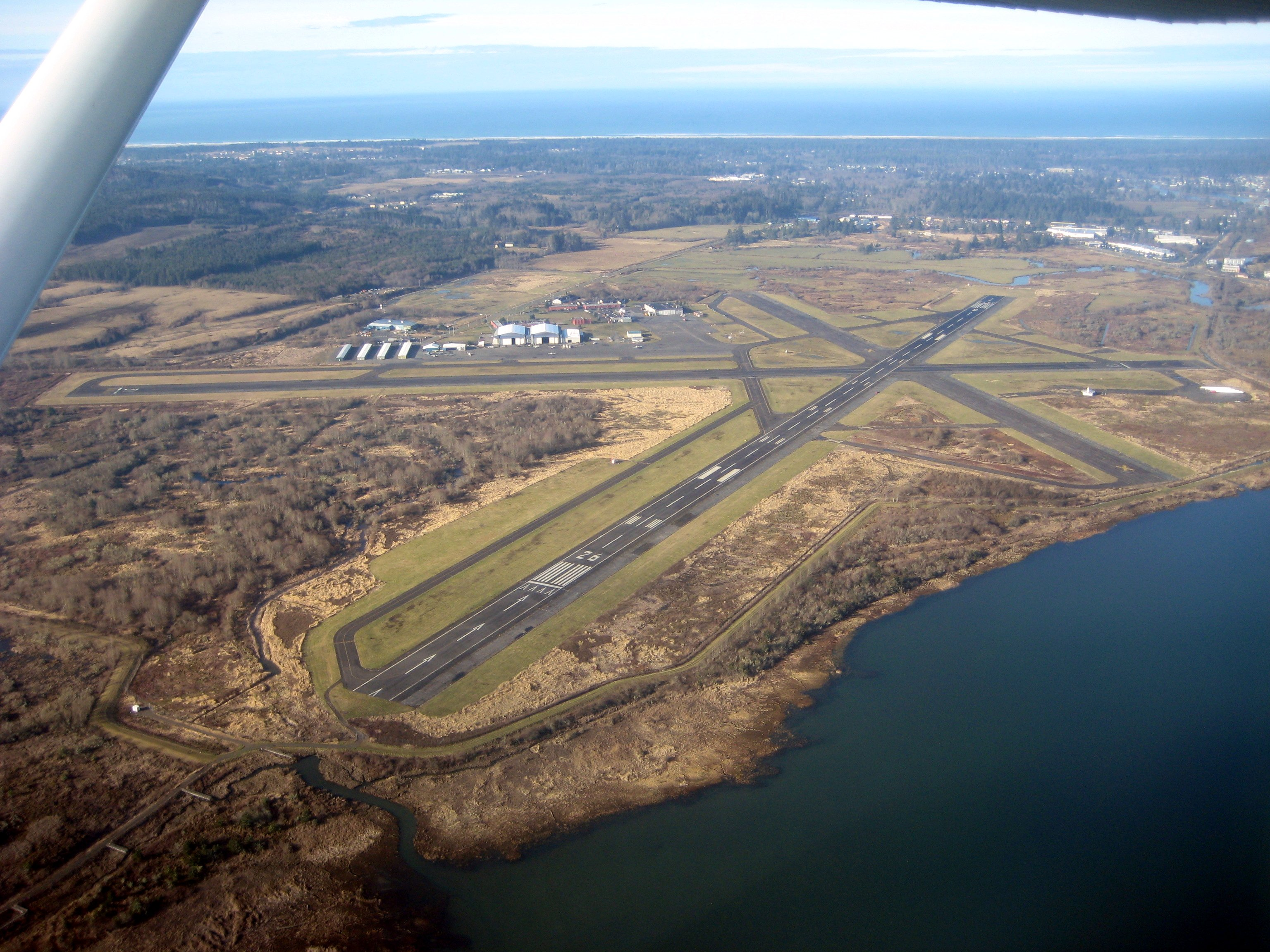 Climbing out alongside Astoria Airport (KAST) on the second day of our trip. Nice field, friendly people, but expensive avgas - about a dollar more than we paid anywhere else in Oregon!